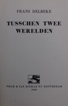 Titelpagina boek Tusschen Twee Werelden, Frans Delbeke (-1947)